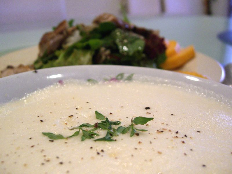 Avgolemono Soup and Grilled Chicken and Mango Salad I raided my pantry, and all I could come up with was an egg a lemon, and some chicken stock, so I made Avgolemono soup ! :) I've never had it before, but my version tasted ok. I used a recipe from Family Circle Soups & Stews, similar to this receipe . I guess i should try it in a Greek restaurant, considering Melbourne has the largest Greek population outside of Greece ! i also happened upon cknlomein's takeaway avgolemono soup when i had a look at photos tagged with avgolemono ! :PAvgolemono Soup and Grilled Chicken and Mango Salad